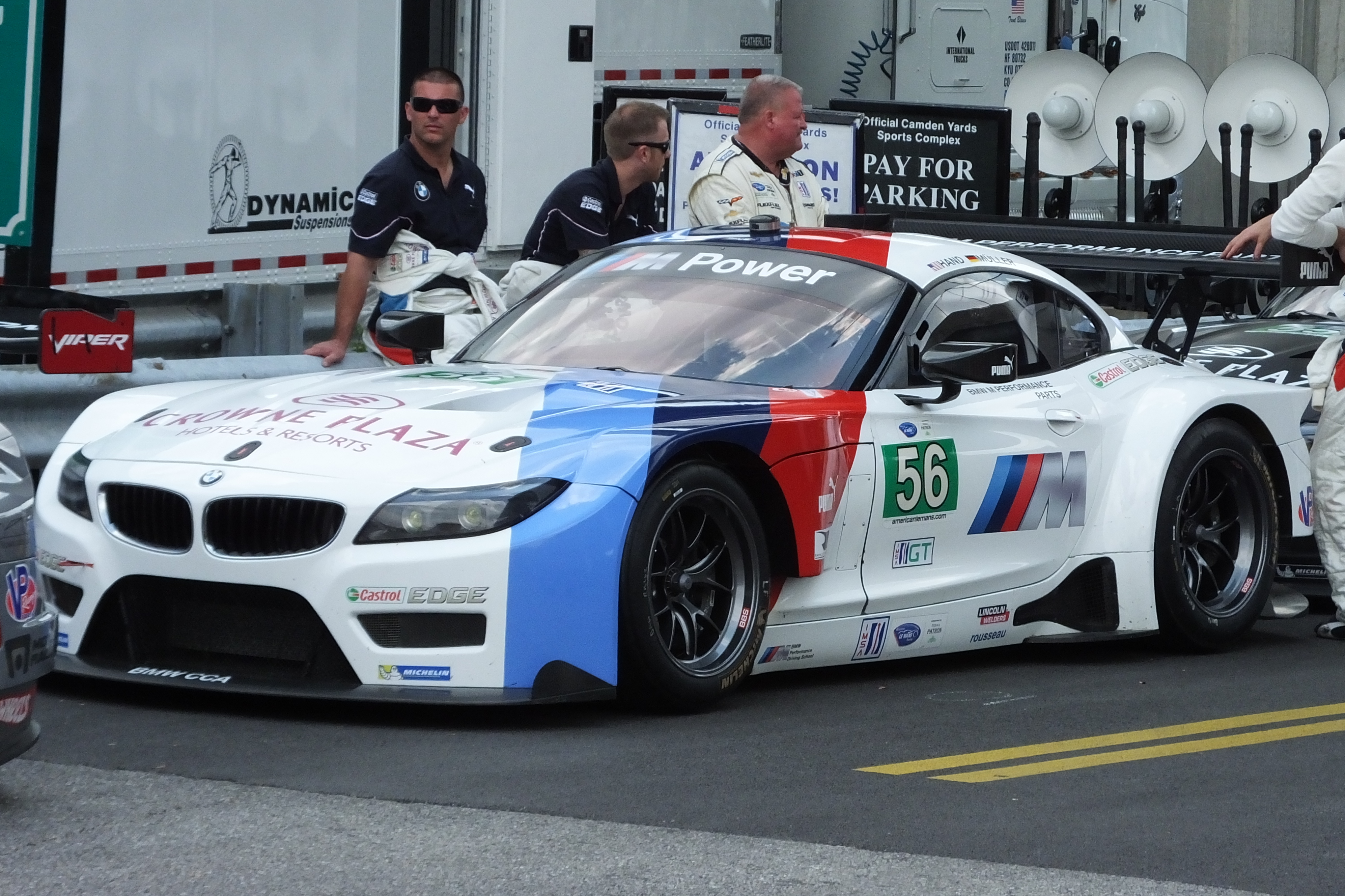 The Rahal-Letterman #56 BMW Z4 GTE